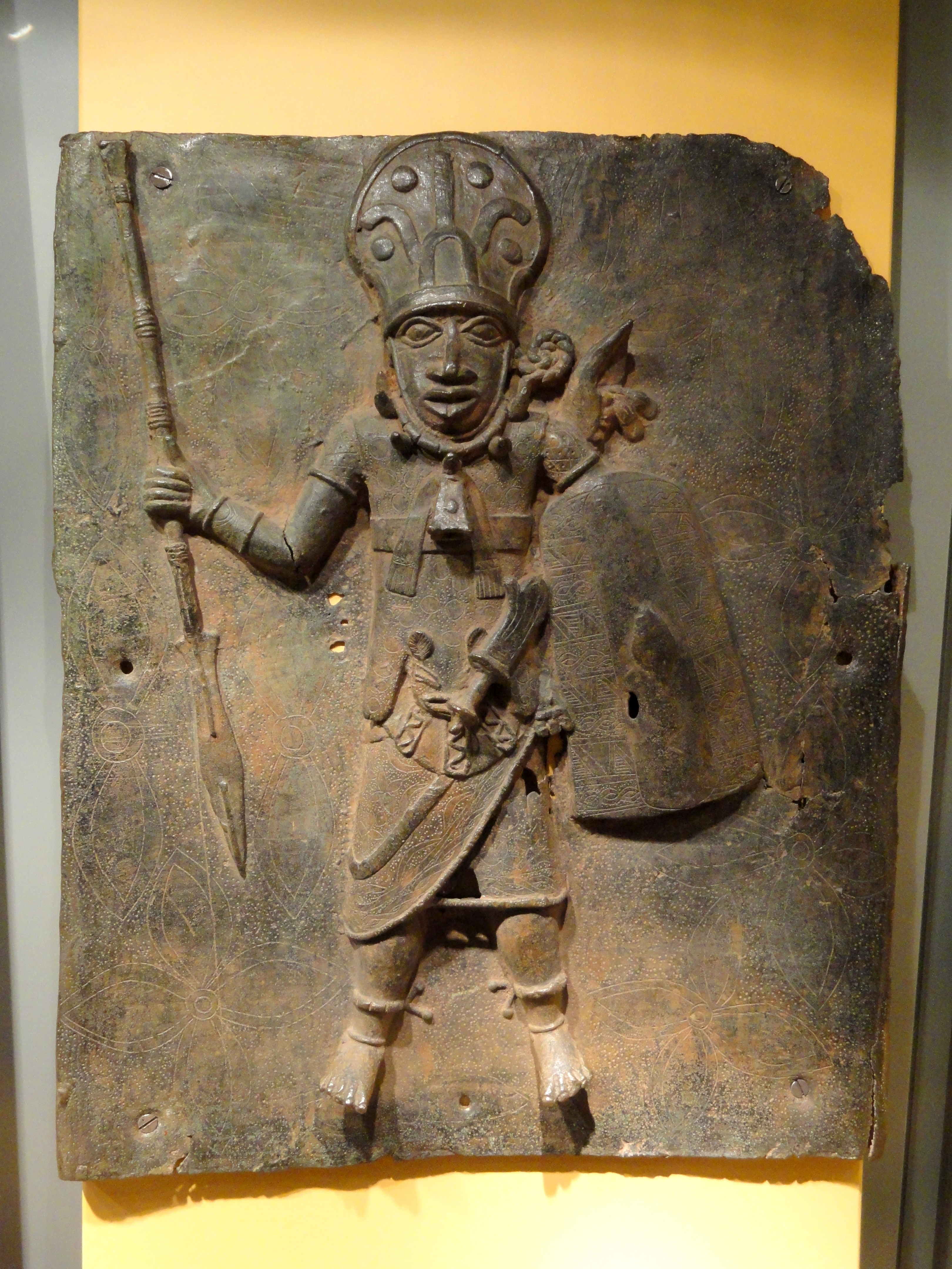 Exhibit from the African collection of the Staatliches Museum für Völkerkunde München, Maximilianstraße 42, Munich, Germany.